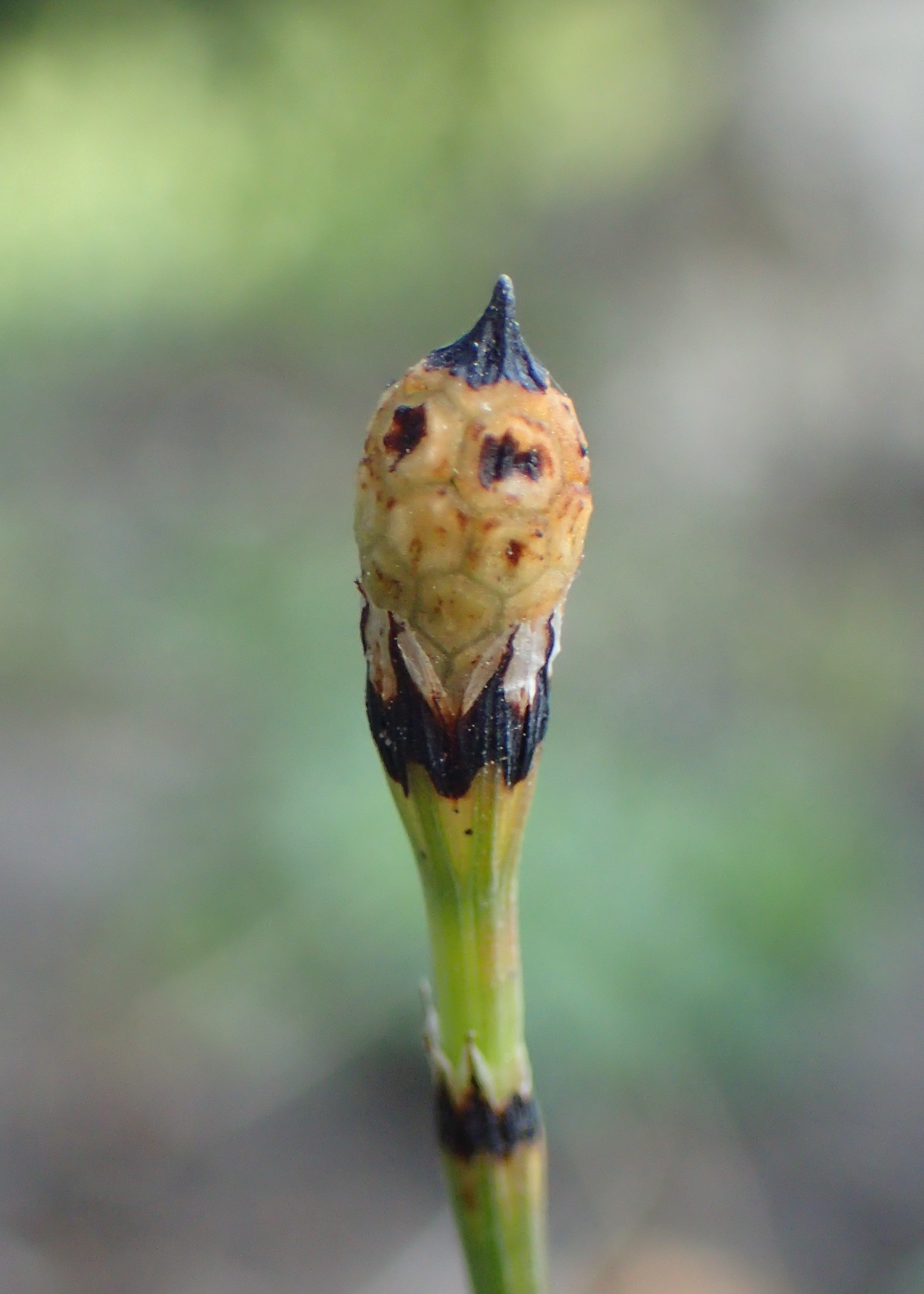 Equisetum variegatum in Warsaw University Botanical Garden